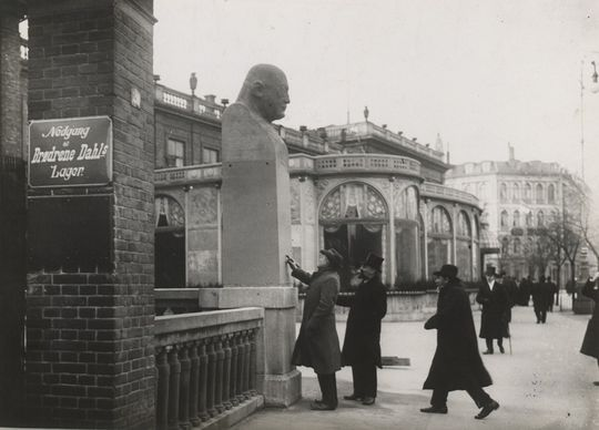 Sculptor Kai Nielsen showing his Th. Bindesbøl herm (1909-10) to art historian Carl Madsen and professor Joakim Skovgård. It was erected at H. C. Andersen Boulevard next to the Industricaféen